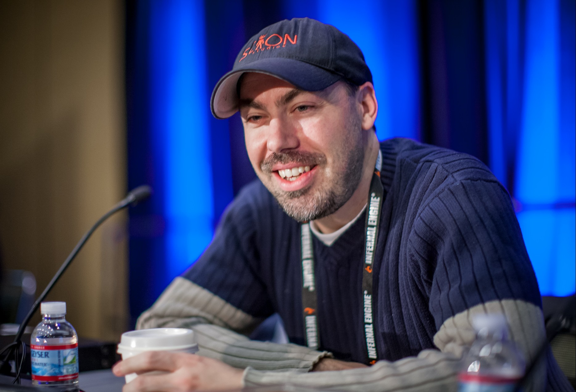 Jim Brown at GDC 2012.